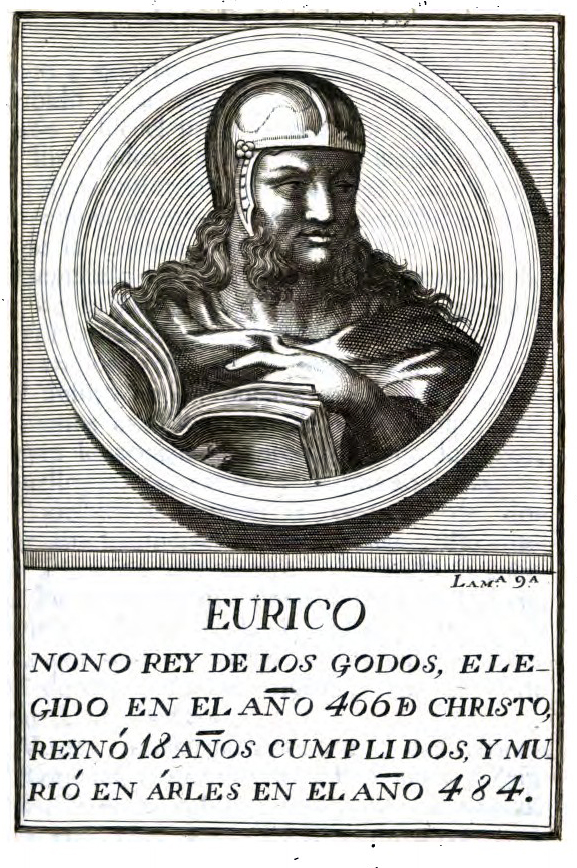 A poster of EURICO, Visigoth king, n° 9 in the chronological order of the book digitalized by Google since the bookshop in the University of Oxford.